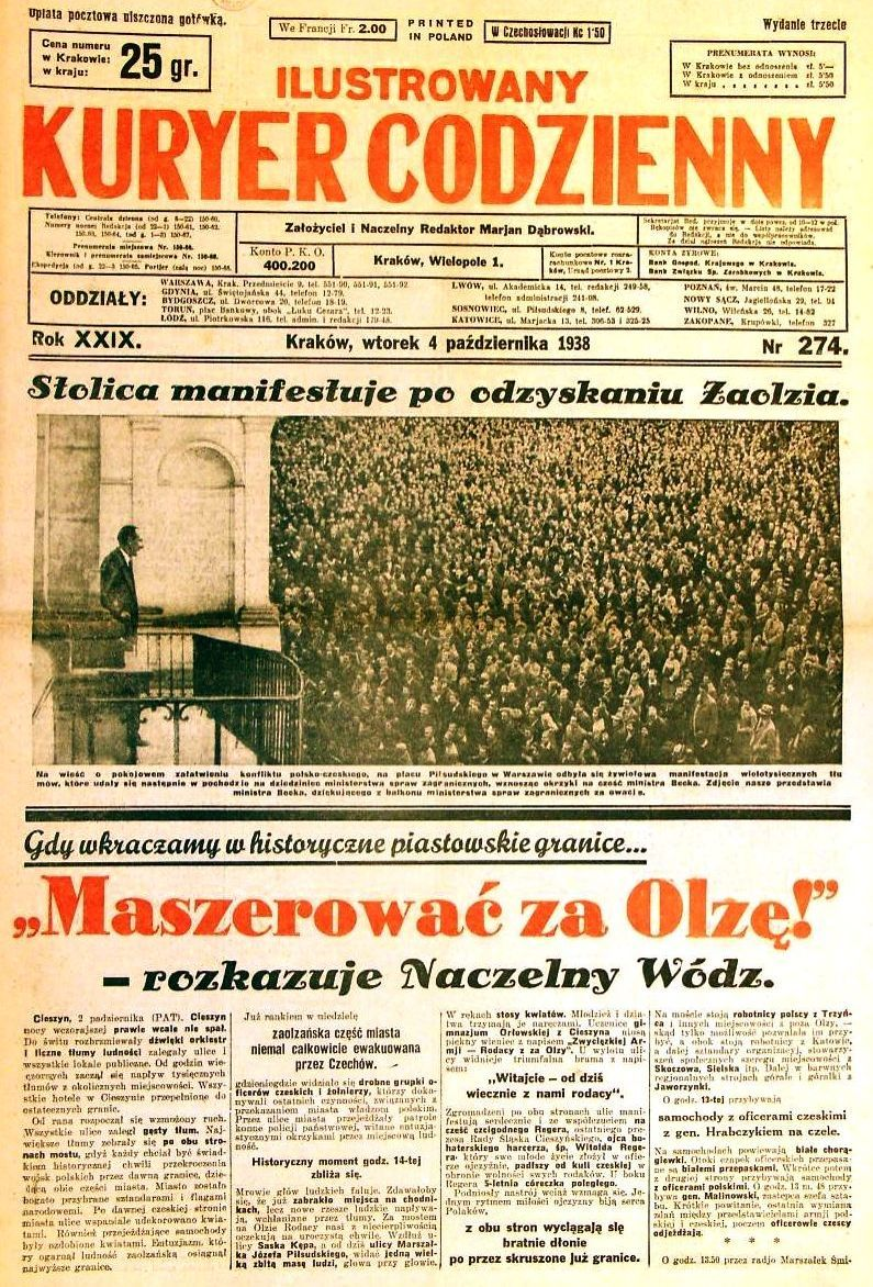 Front page of the Polish daily Ilustrowany Kuryer Codzienny, issue of October 4, 1938